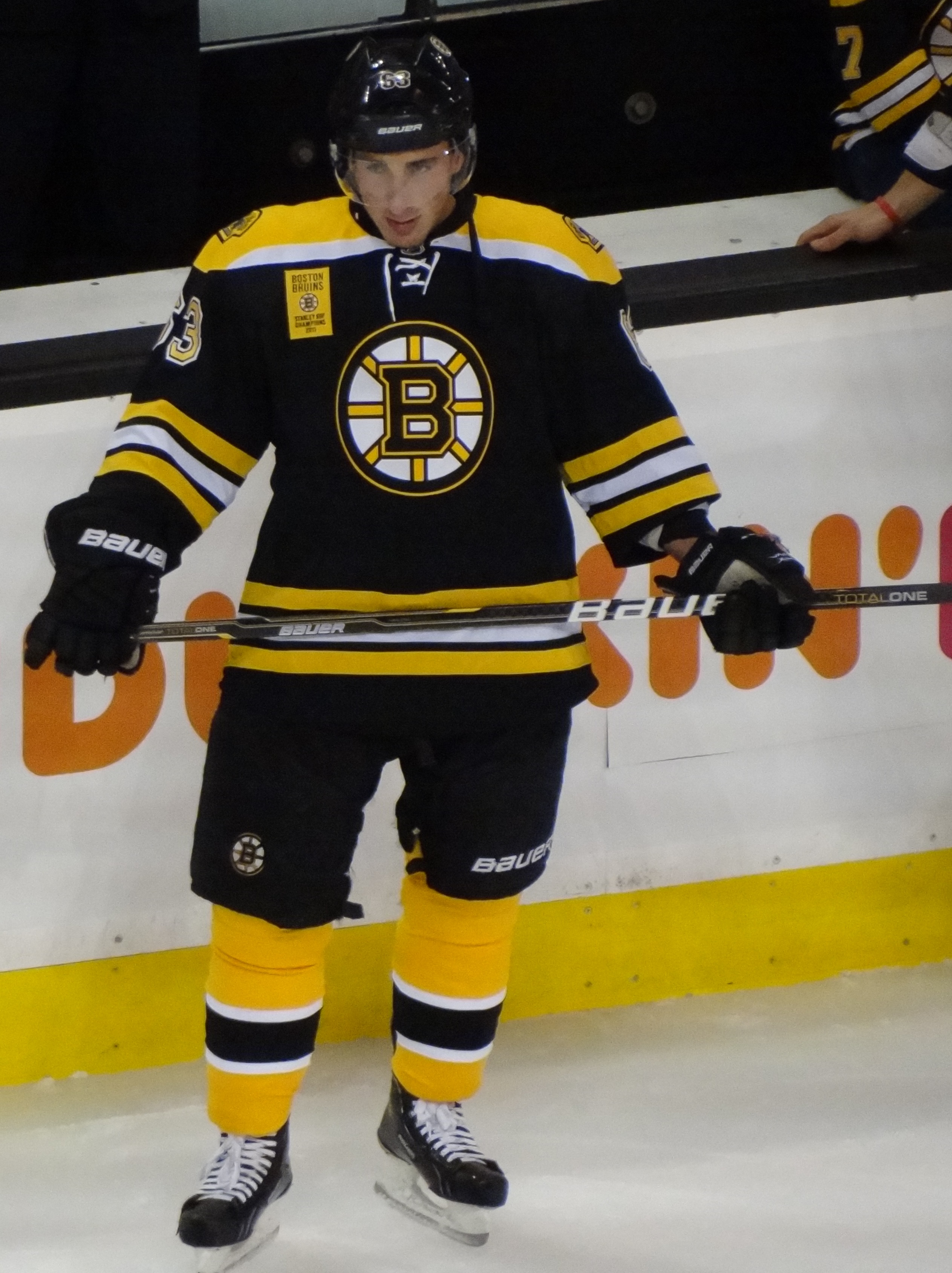 During warm up prior the NHL Game between the Boston Bruins and the Philadelphia Flyers.